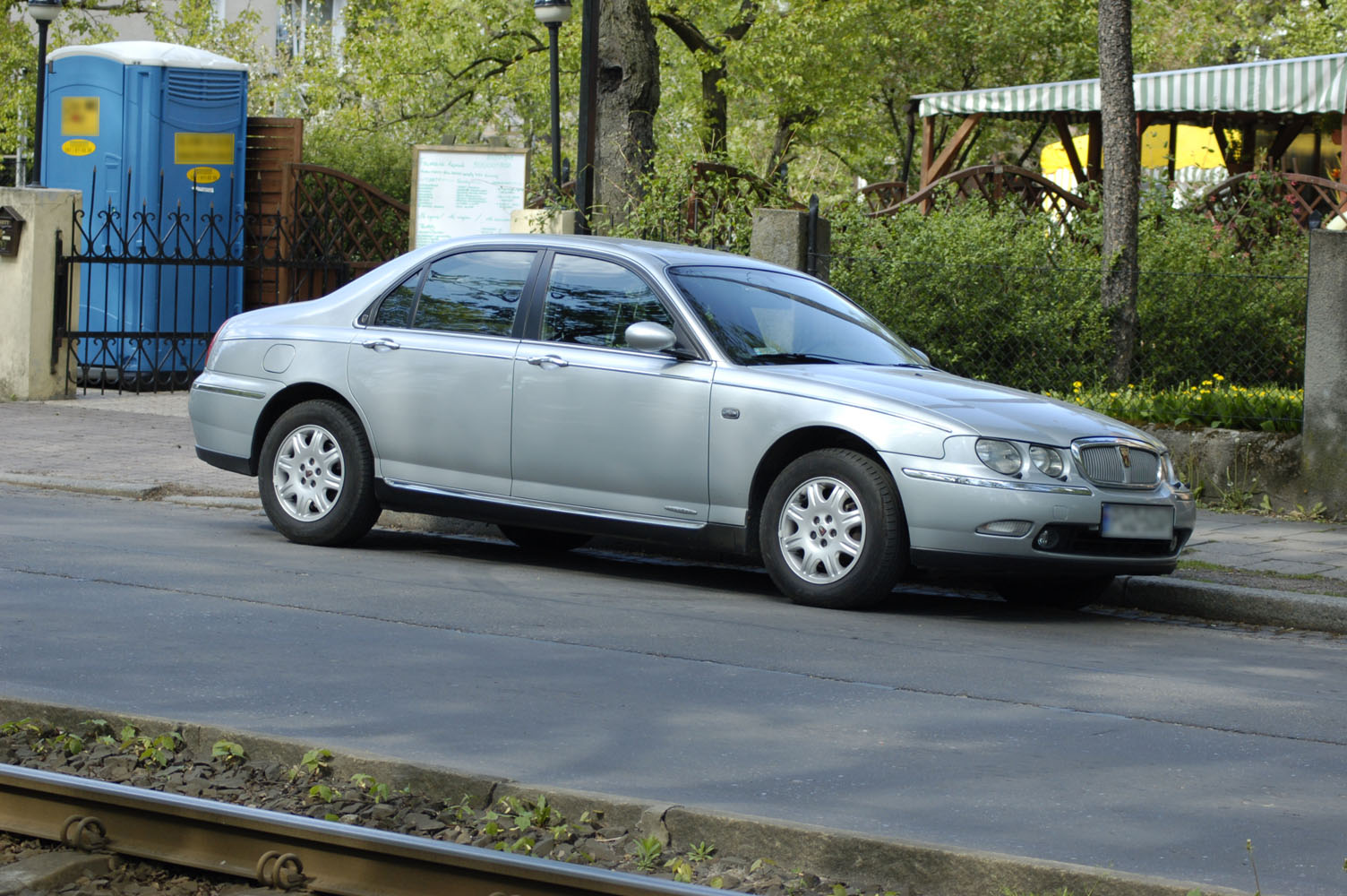 a silver Rover 75, viewed from front-right side